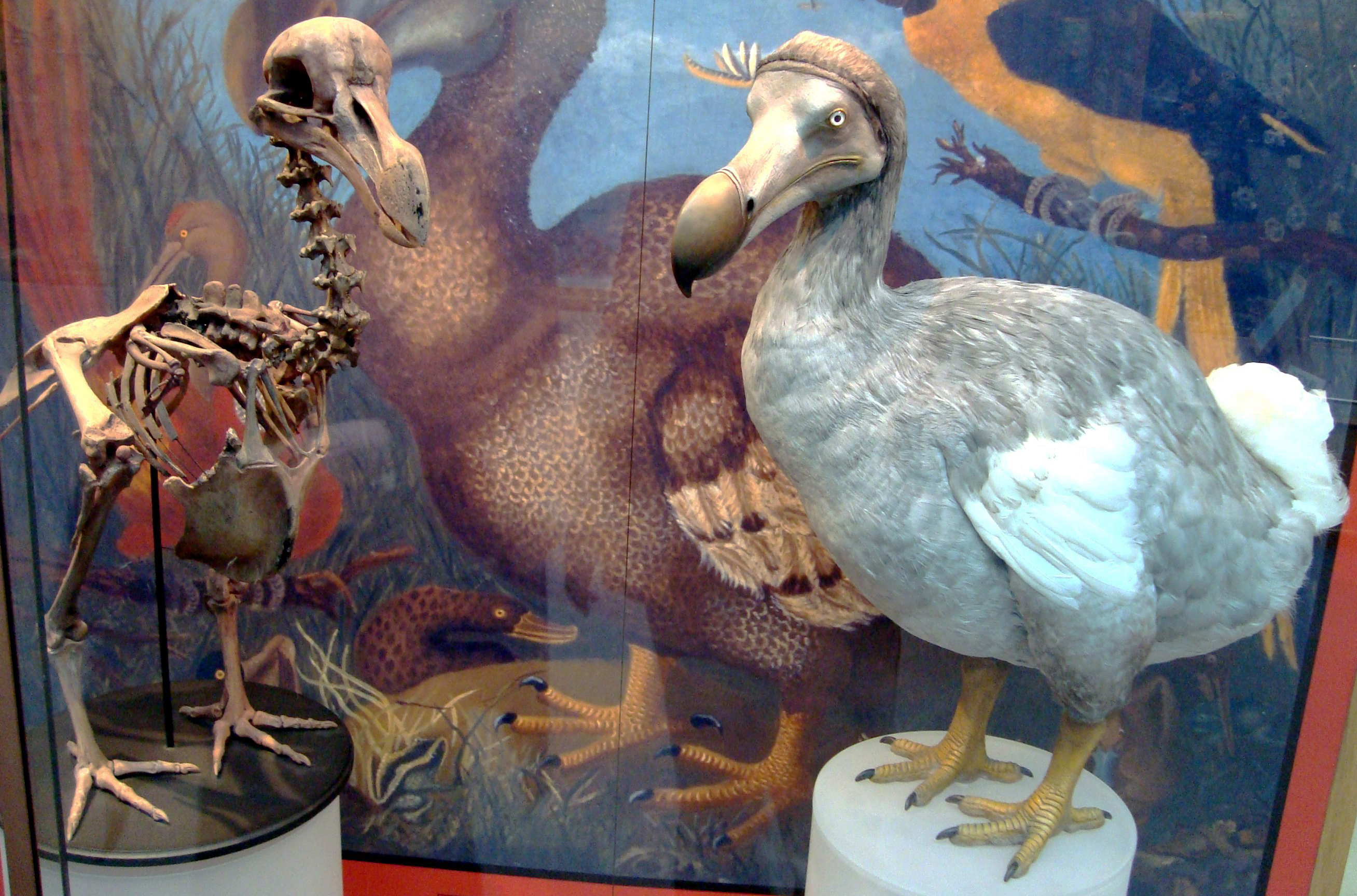 Skeleton cast and model of dodo at the Oxford University Museum of Natural History, based on modern research.[1]